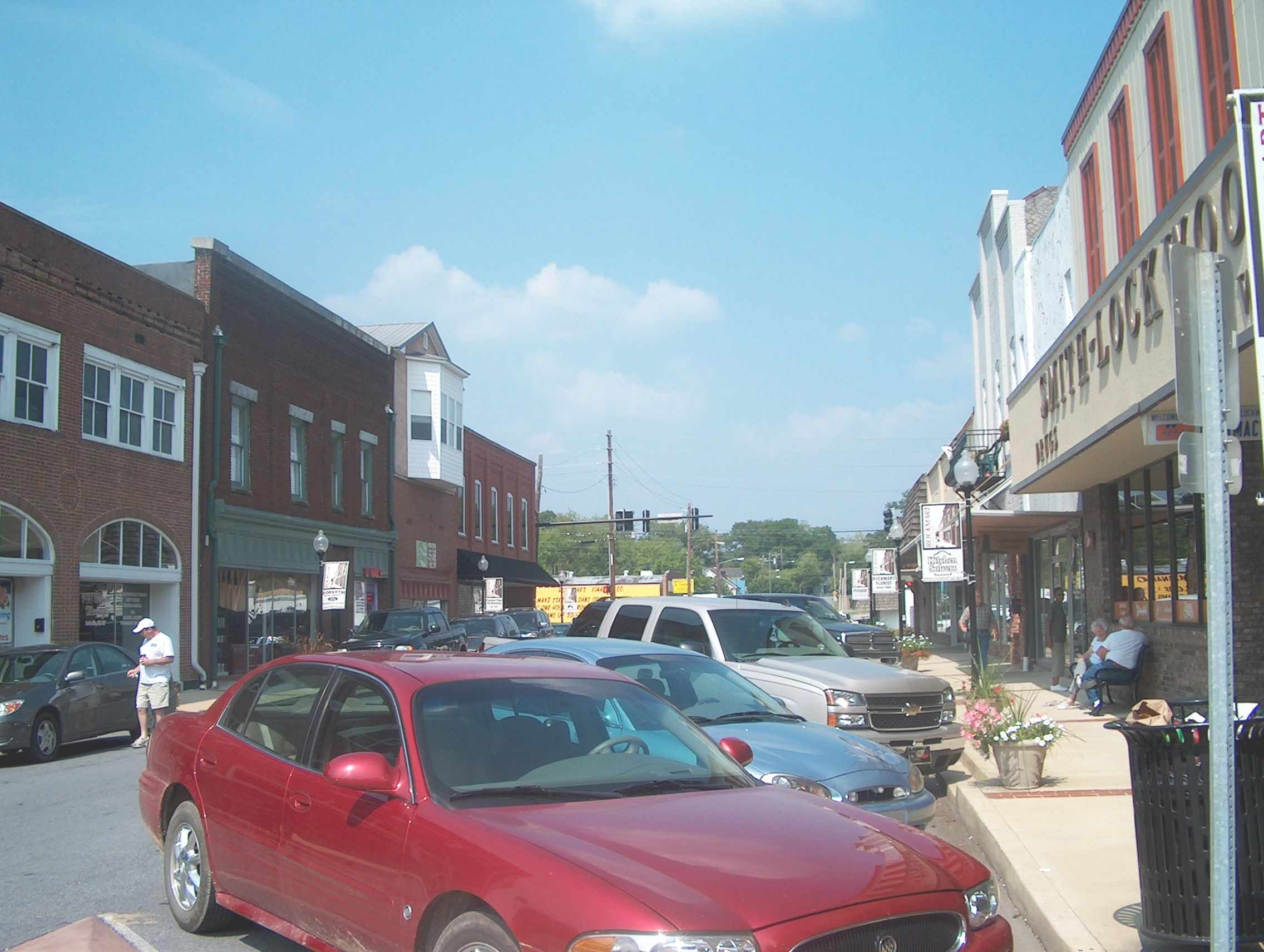 Downtown Rockmart (left side) taken by Cculber007 on September 1, 2007